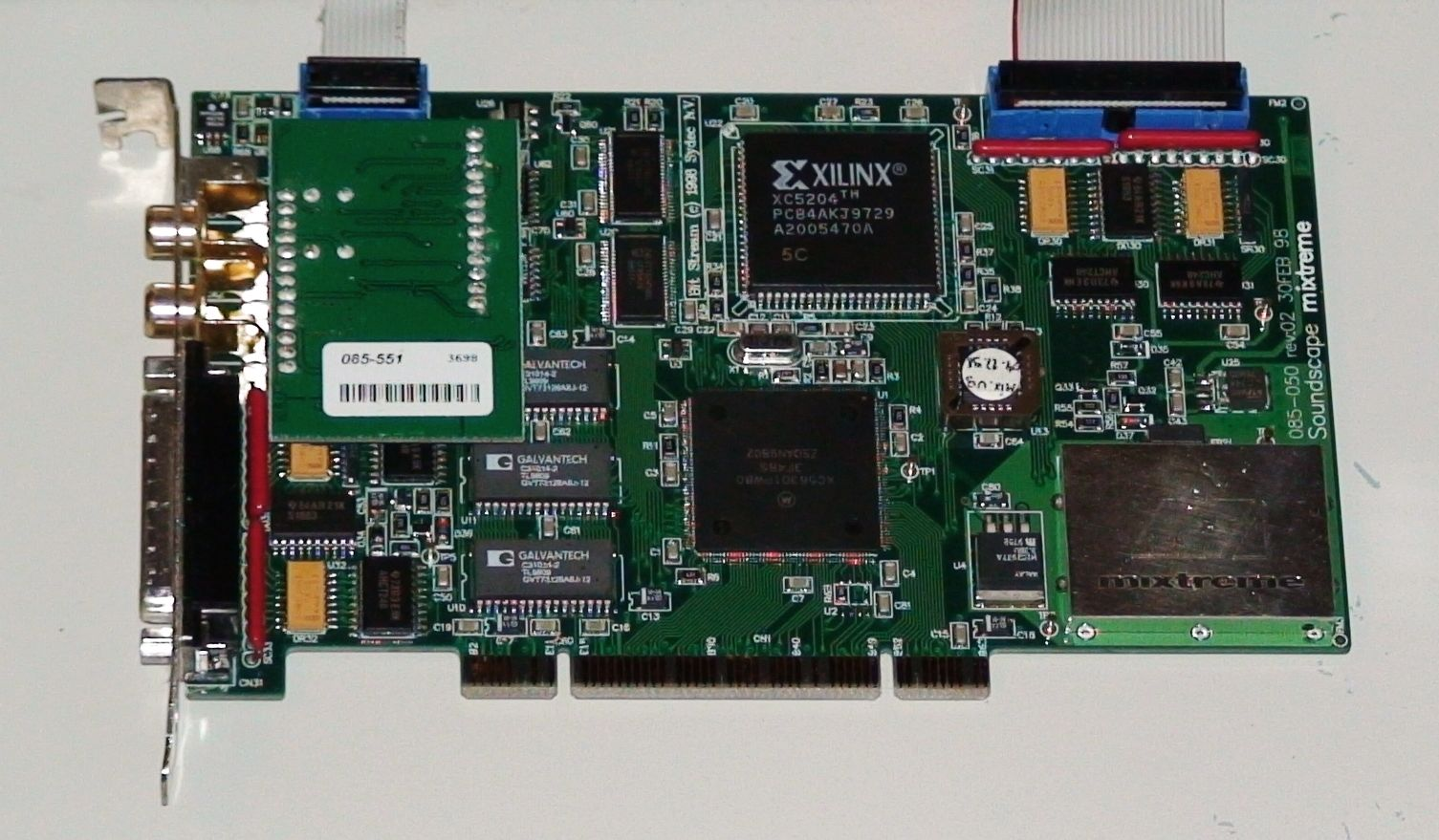 Soundscape Mixtreme Soundcard with Motorola DSP and Tascam TDIF Interface for audio mixing and mastering